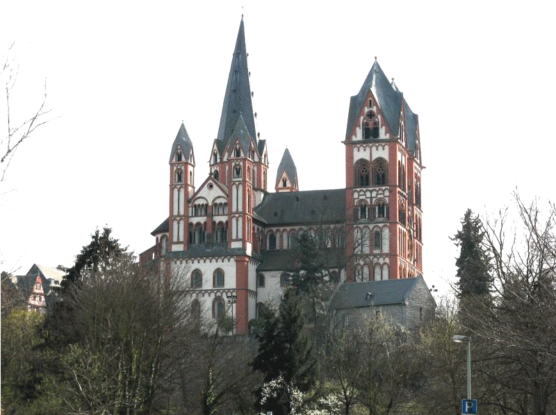 Cathedral of Limburg (D), seen from the north